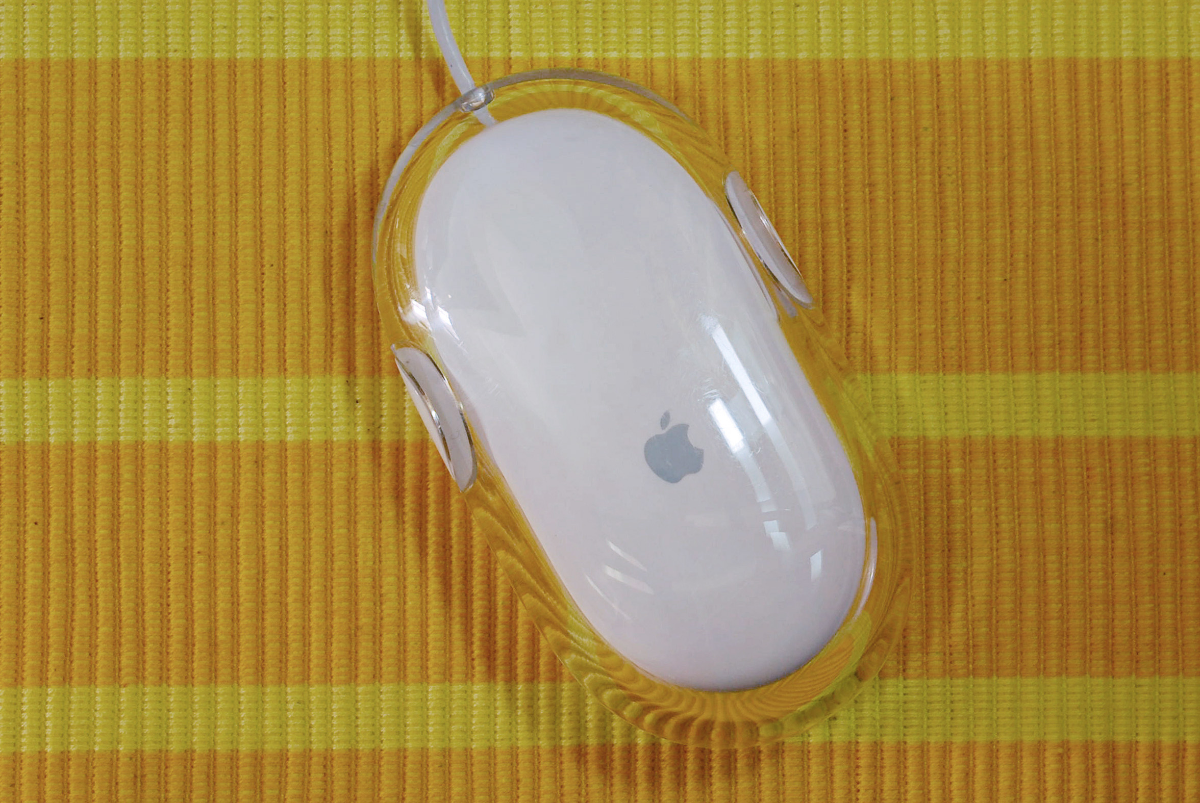 Apple Mouse